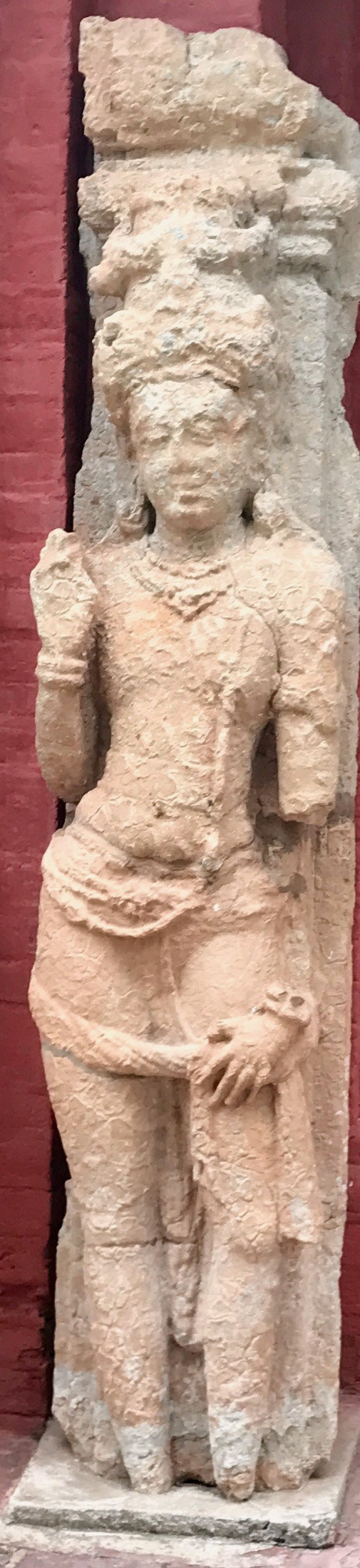 Sirpur, also referred in medieval era texts as Shripur (city of wealth), is a town on the banks of Mahanadi in Chhattisgarh. The site became archaeologically significant after a visit and report on a Laxman (Lakshmana) temple in 1872 by Alexander Cunningham, a colonial British India official. Sirpur is mentioned in the memoirs of the Chinese traveler Hieun Tsang as a location of monasteries and temples. The site has been significant for its temple ruins of Rama and Lakshmana of the Ramayana fame. The site excavations after 1960, particularly after 2003, have yielded 22 Shiva temples, 5 Vishnu temples, 10 Buddha Viharas, 3 Jain Viharas, a 6th/7th century market and snana-kund (bath house). The site shows extensive syncretism, where Buddhist and Jain statues or motifs intermingle with Shiva, Vishnu and Devi temples. The region was conquered and plundered by the armies of Delhi Sultanate and later Deccan Sultanates. The town and temples were damaged in the wars and were abandoned. Dense vegetation grew over it and floods deposited silt. 20th and 21st century excavations have unearthed many monuments. The site is large and artwork stick out of farmlands and dirt roads in and near Sirpur.